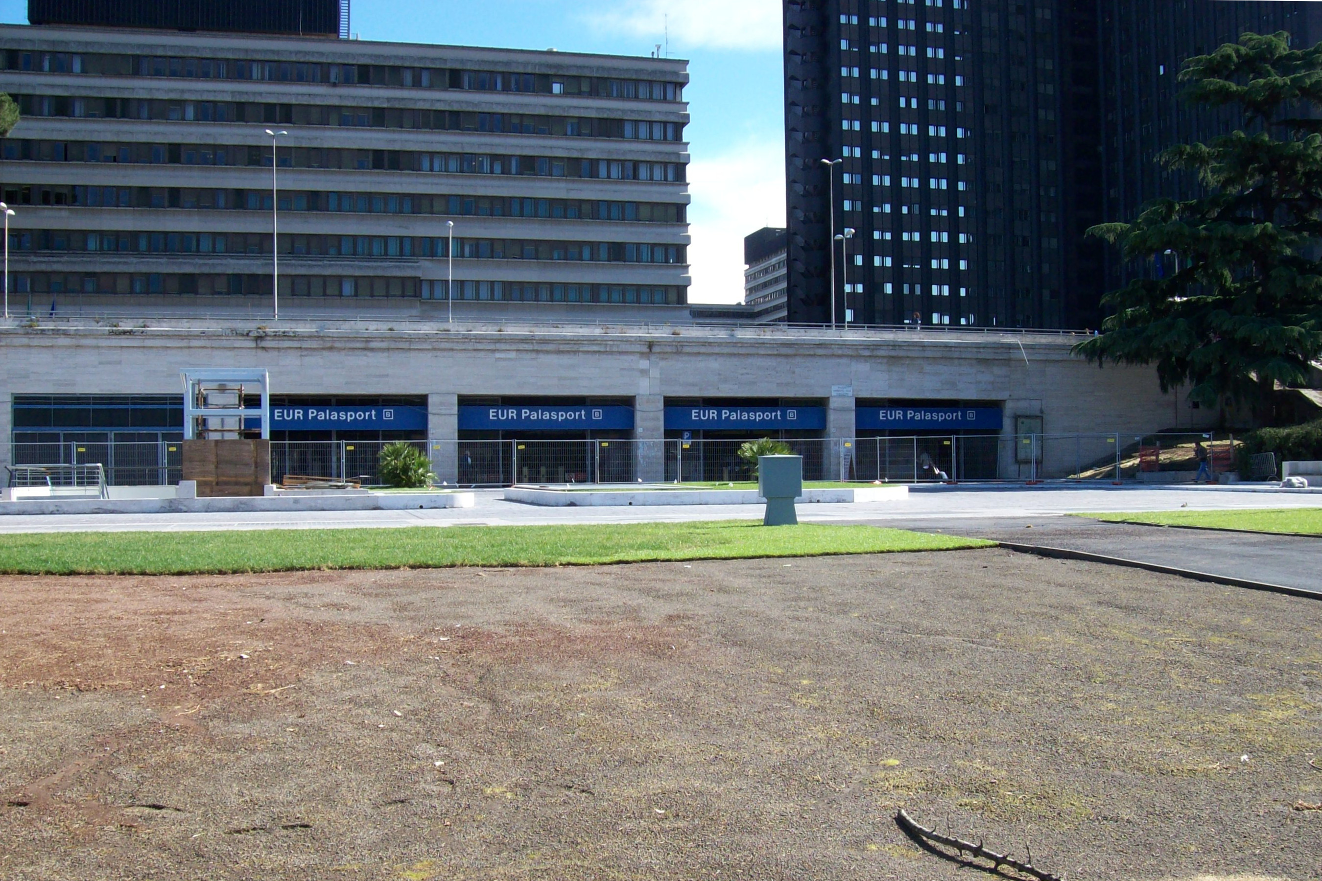 External view of the Rome Metro B station EUR Palasport